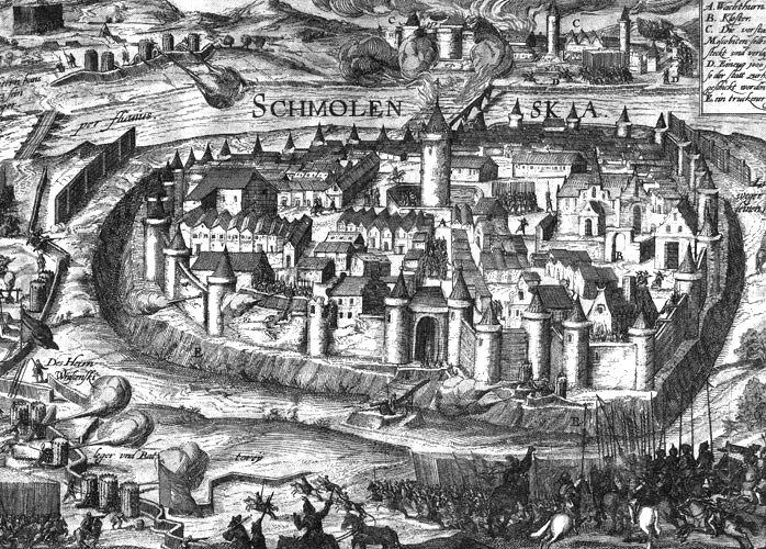 Siege of Smolensk during Polish-Russian war 1609-1618